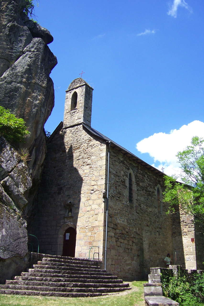 Church ND Verdale near Latouille-Lentillac